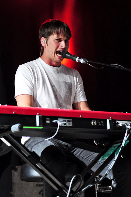 Big Day Out Festival 2012.